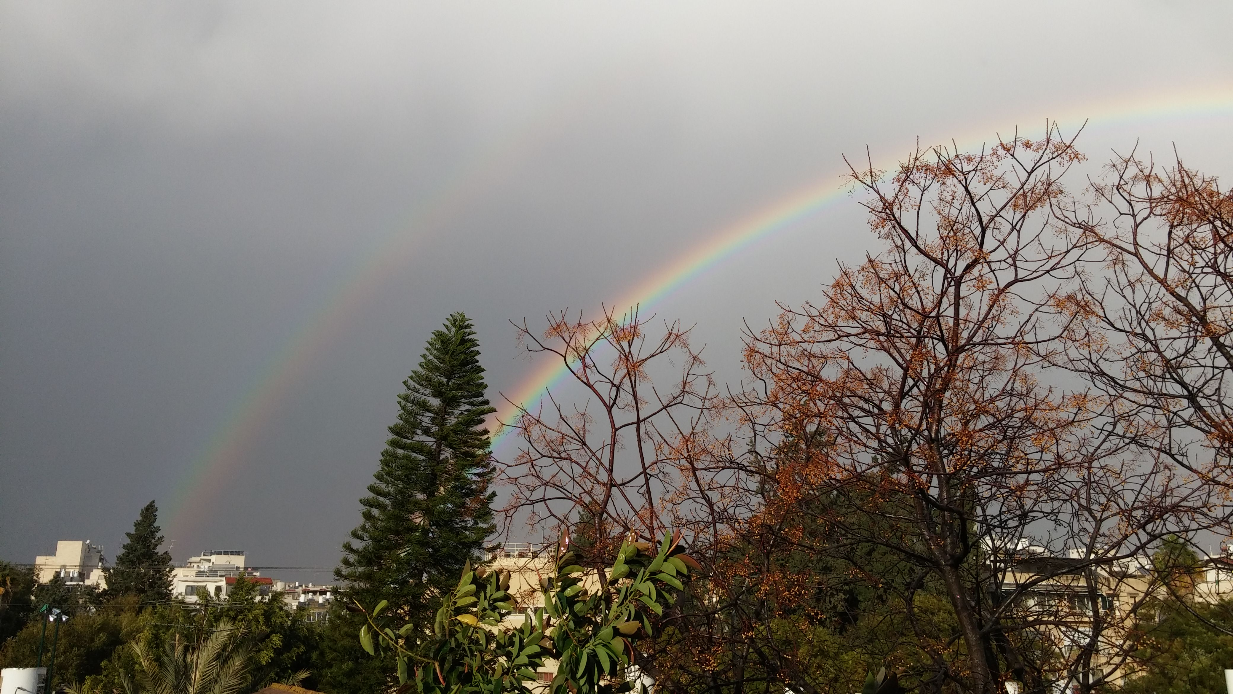 A double rainbow in Ramat Gan